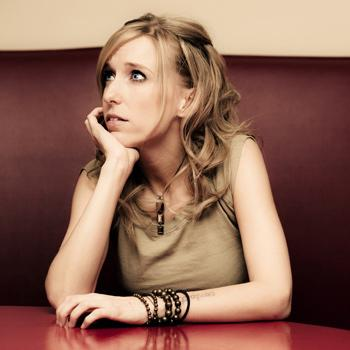 Cat Jahnke promotional photo taken and owend by her. Express written permission to use photo from Jahnke, the copyright holder, herself.